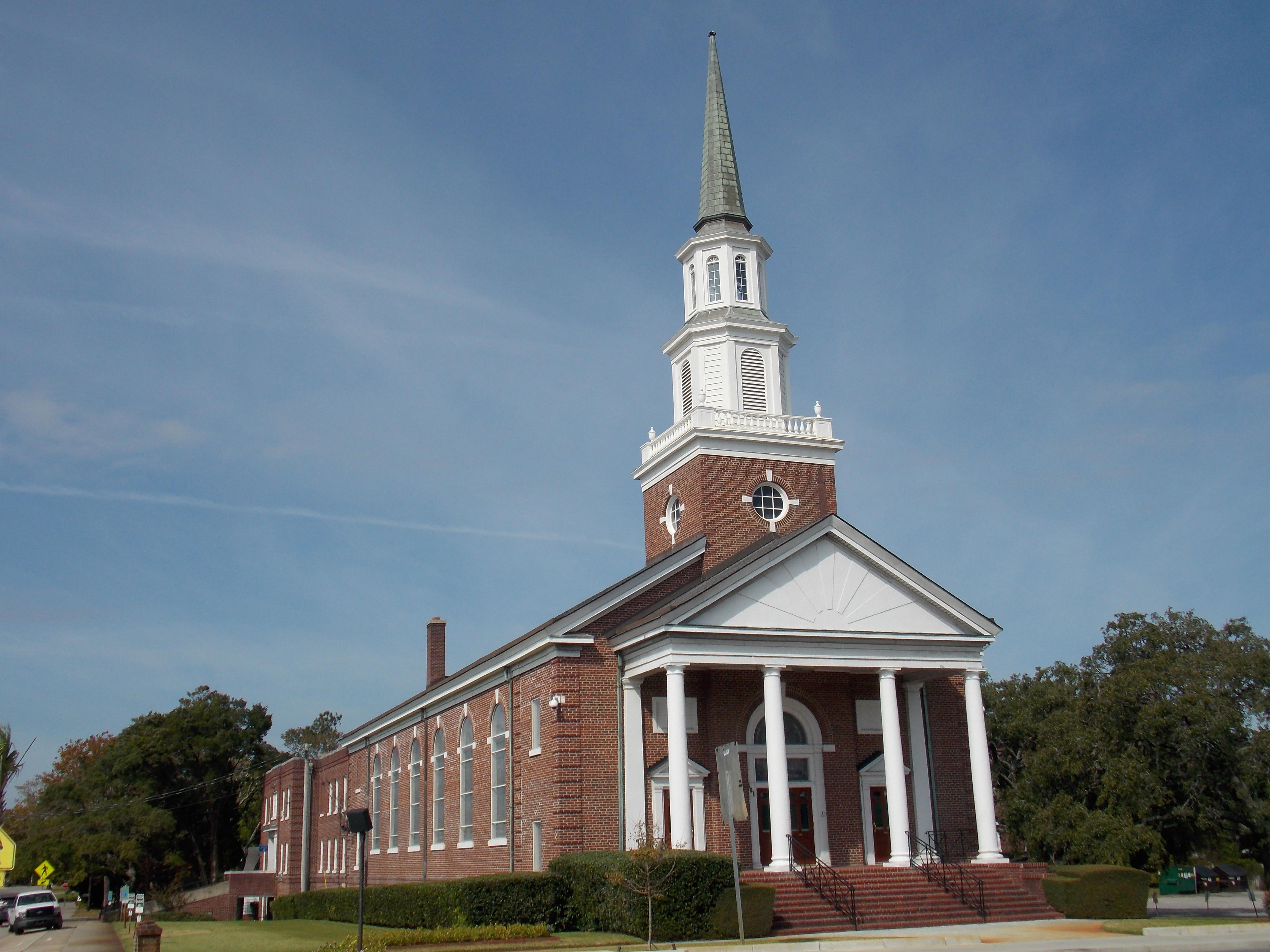 First Baptist Church on Kings Highway, Myrtle Beach, South Carolina.